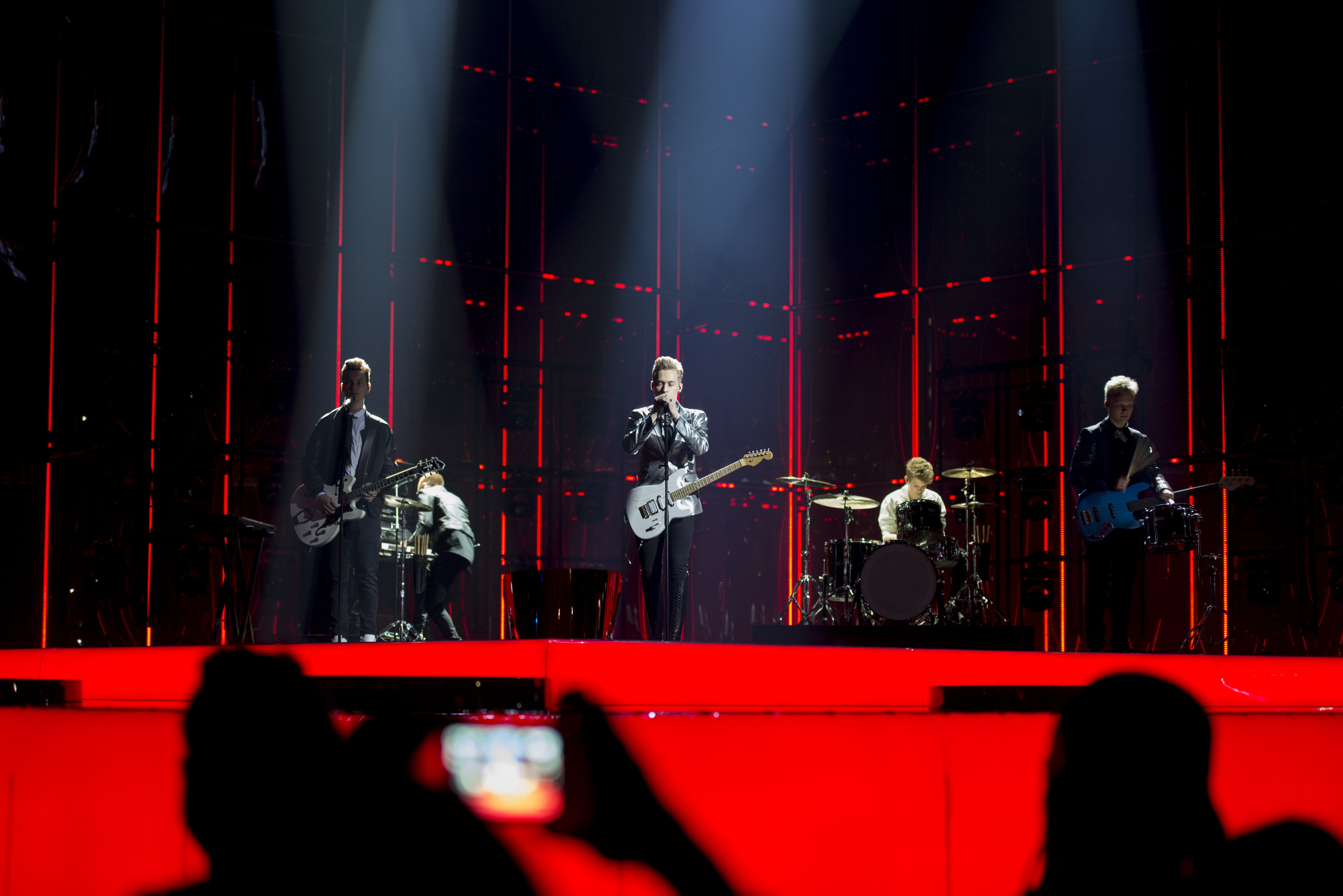 Softengine representing Finland with the song "Something Better" during the first dress rehearsal of the second semi final of the Eurovision Song Contest 2014 Copenhagen. (Help translate this text)